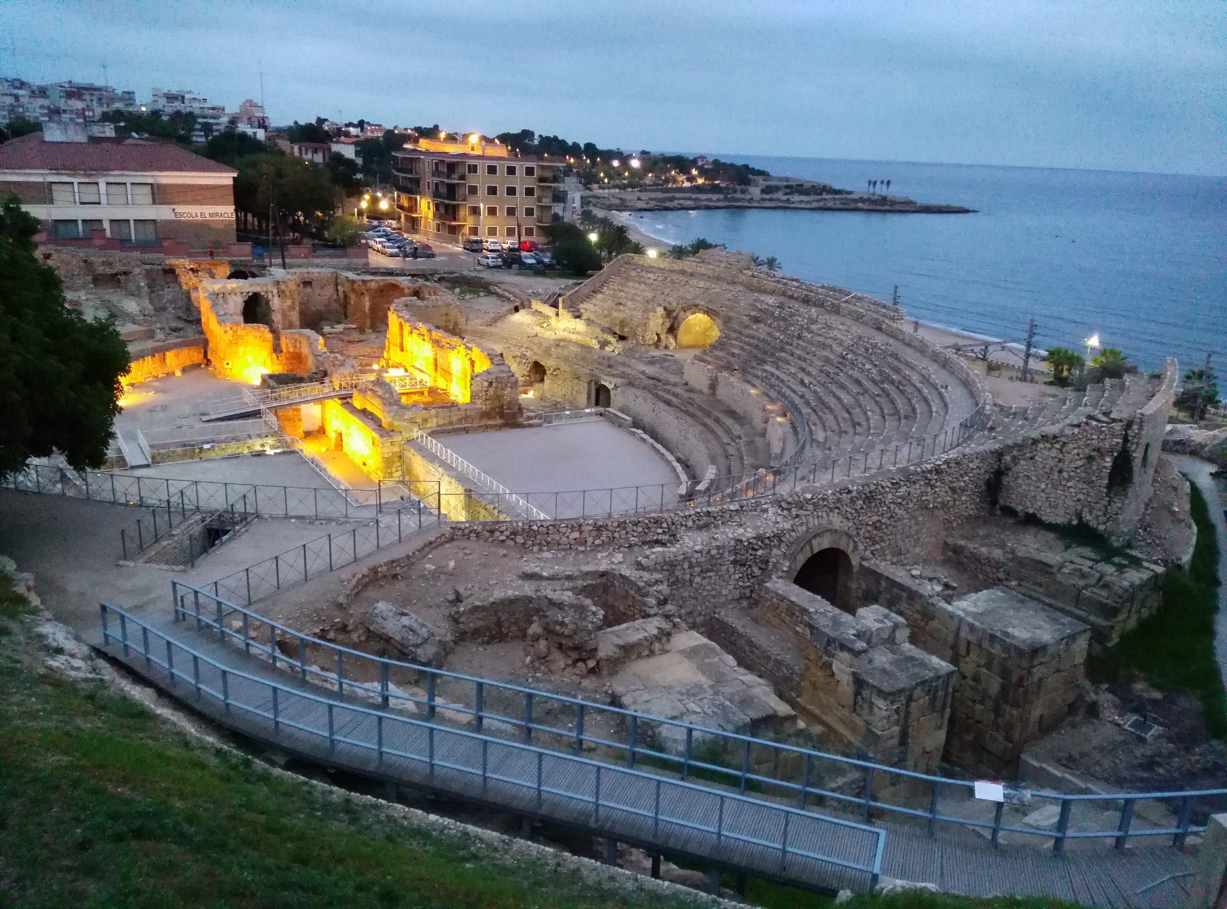 tarragona amphitheater